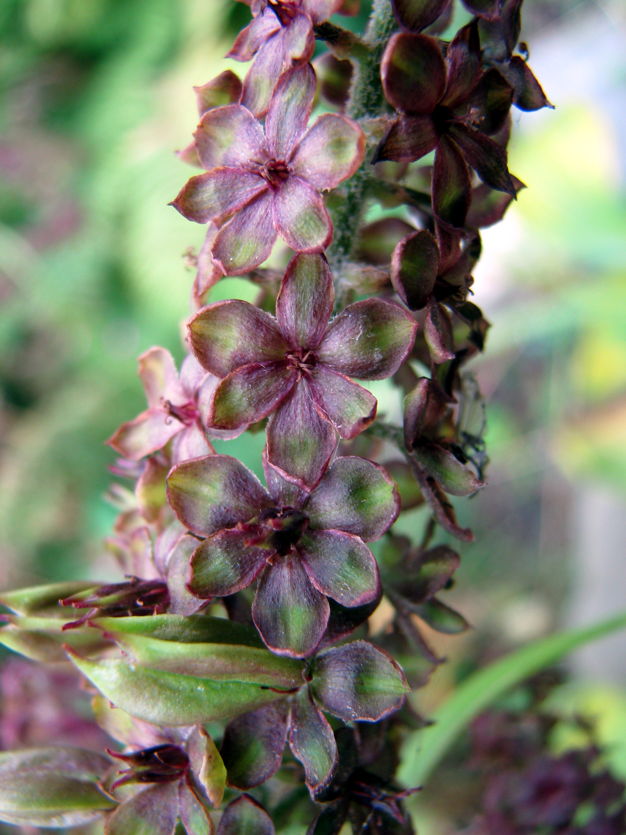 False hellebore (Veratrum nigrum), flowering plant, cultivated in Wrocław University Botanical Garden, Wrocław, Poland.